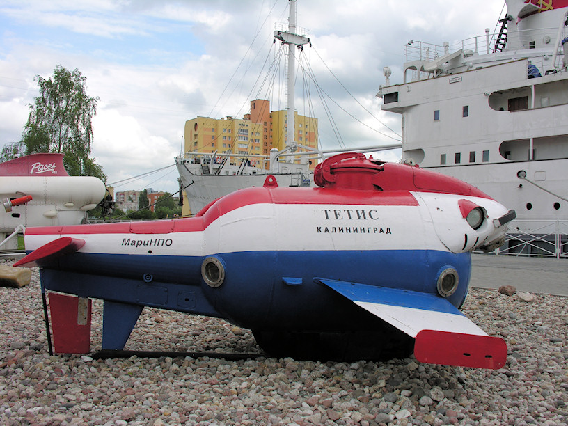 Tetis deep submergence vehicle, Museum of the World Ocean, Kaliningrad.